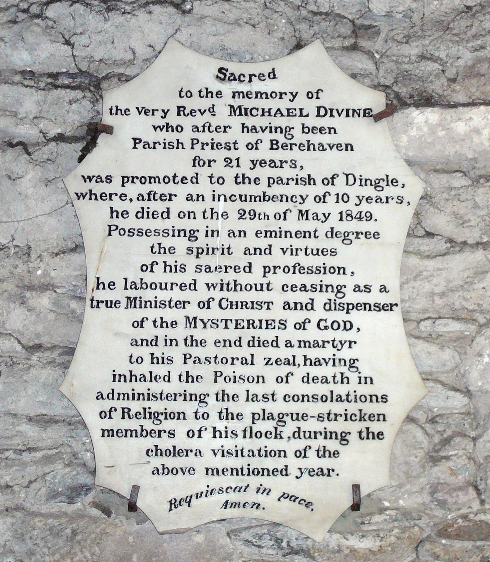 Plaque in the side-entrance of Séipéal Naome Muire (Saint Mary's Church), Dingle, County Kerry. It records the town's cholera plague of 1849.